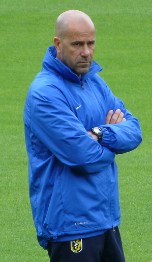 Peter Bosz, manager at Vitesse